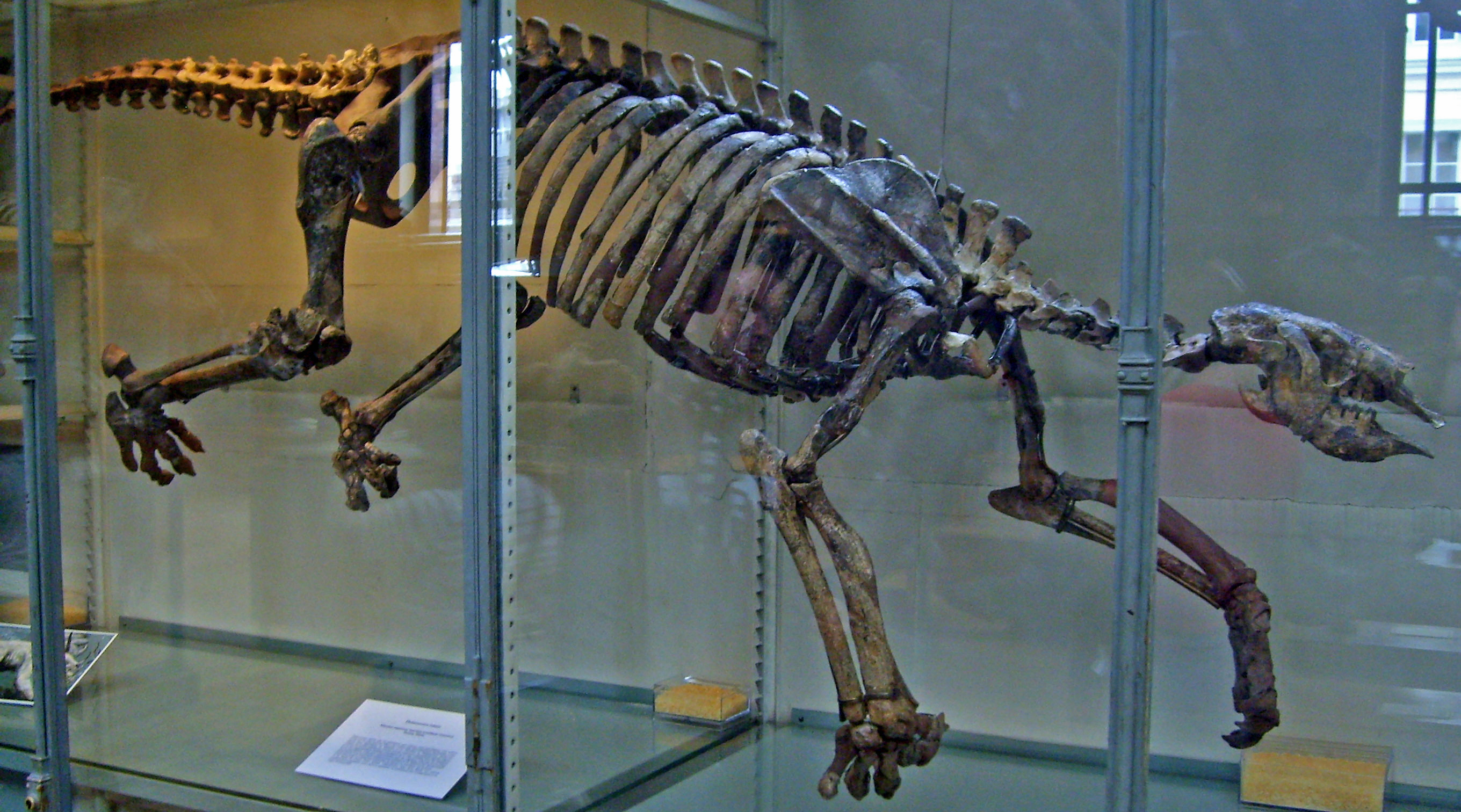 Thalassocnus natans skeleton, Muséum national d'histoire naturelle, Paris.